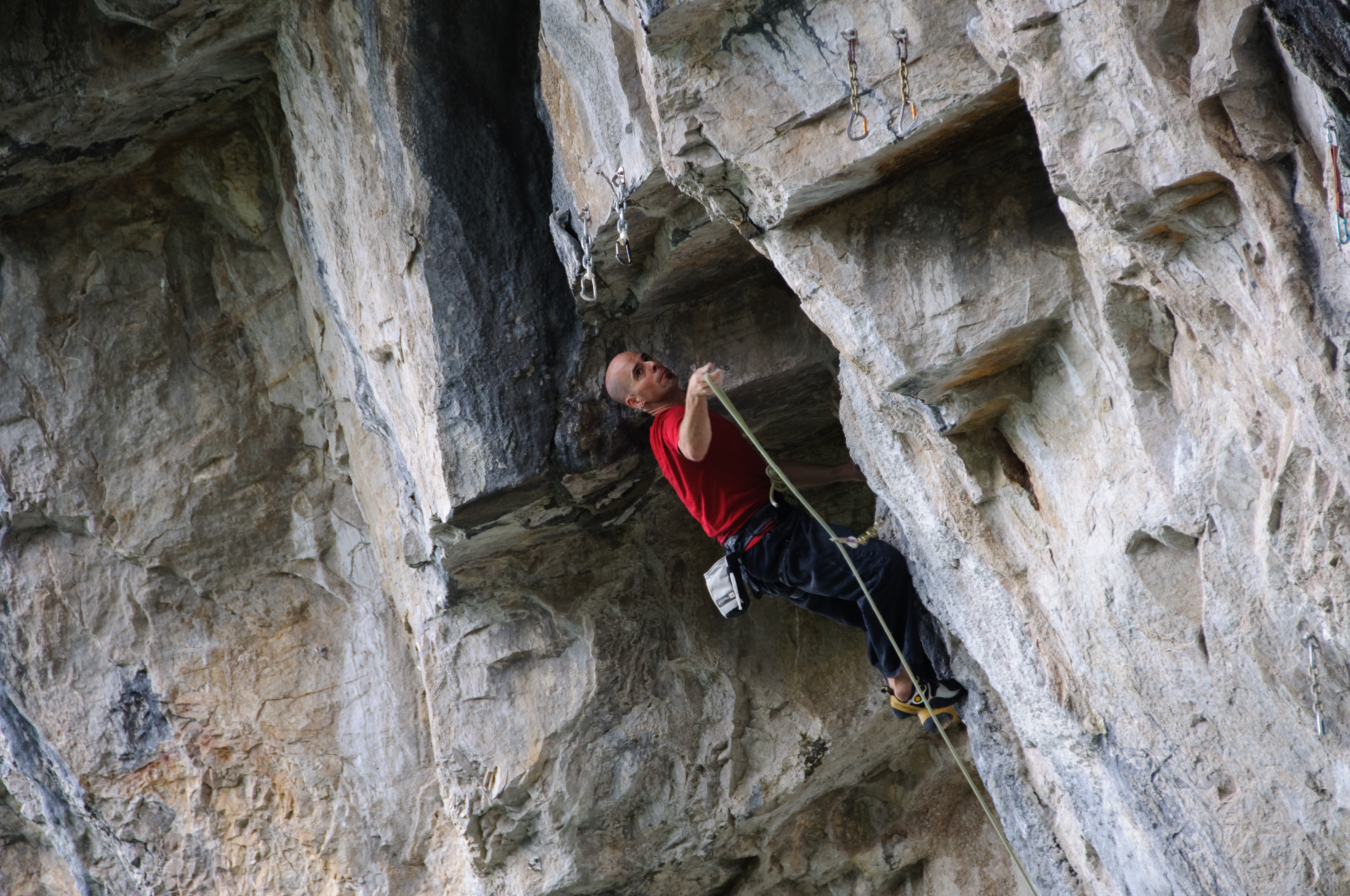 Climbing a cascade of roofs